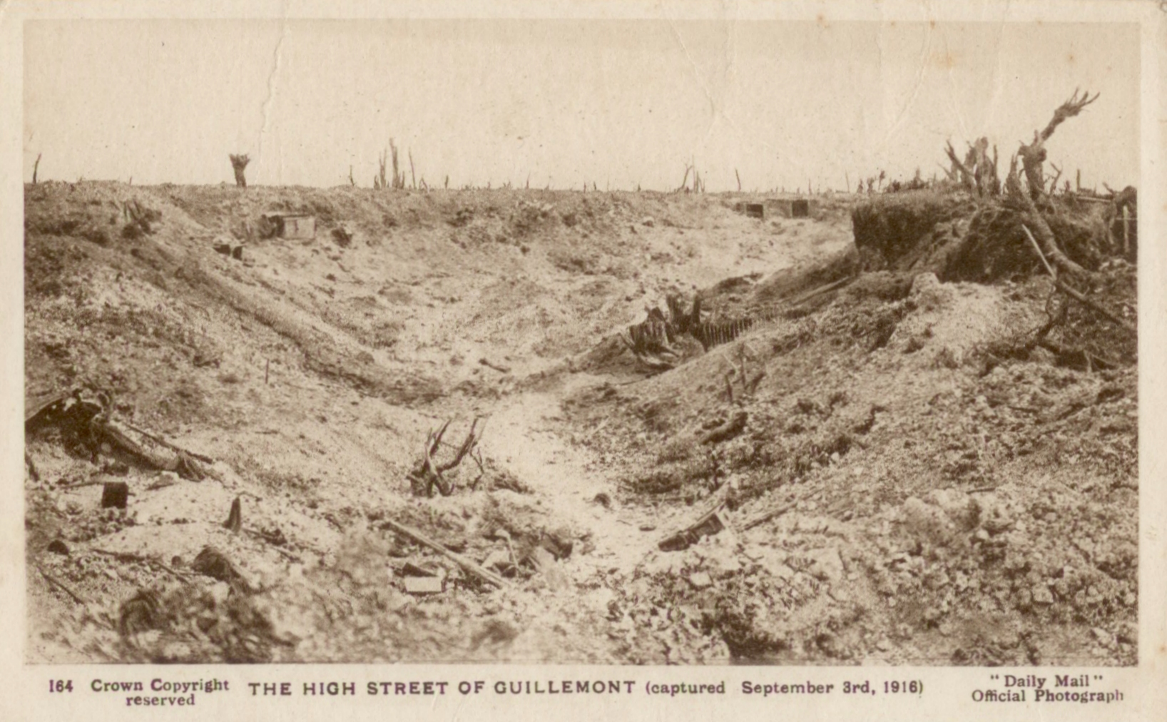 World War I Daily Mail Official War Photograph, Series 21, No. 164, titled "The high street of Guillemeont (captured September 3rd, 1916)". The obverse carries the following information: "Passed by Censor" and "The appalling results of modern warfare are seen in this photograph of the ground on which stood the High Street of Guillemont".